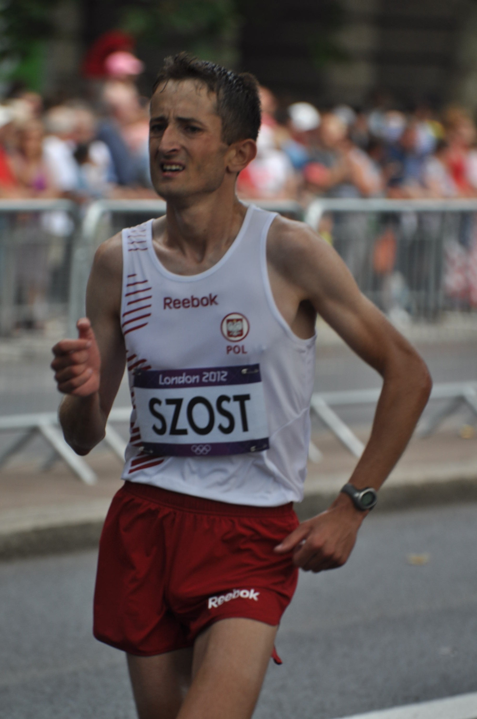 The men's marathon of the 2012 Summer Olympics in London, UK took place on an Olympic marathon street course on Sunday 12th August 2012 at 11:00. This was the final day of the 30th Olympic Games. The London 2012 marathon course is the standard Olympic distance of 26 miles 385 yards and consists of one short lap of approx 2.2 miles followed by three longer laps of 8 miles. The course began on The Mall and travelled past several of the most famous London landmarks. The start/finish line was near the Victoria Memorial. These photographs were taken at the Victoria Embankment. This featured several times on the looped course. The approximate location from the photographs is shown in the Google StreetView Link below. Stephen Kiprotich won in 2 hours, 8 minutes, 1 second as he pulled away from the Kenyan duo of Abel Kirui and Wilson Kiprotich Kipsang. These photographs are unofficial photographs. They are not endorsed by London 2012. There are not commercially available. They are available for use under a Creative Commons License. Please link back to the photograph on my Flickr account if you use the image.